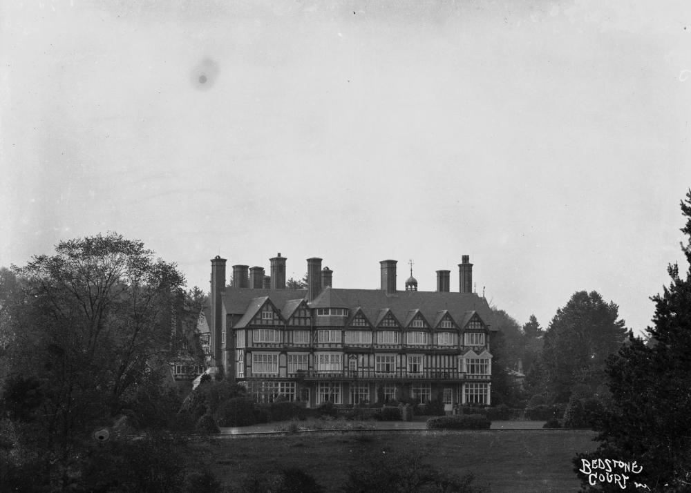 Abstract: Bedstone Court